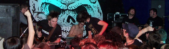 Alexisonfire @ L3 Niteclub, January 30, 2004